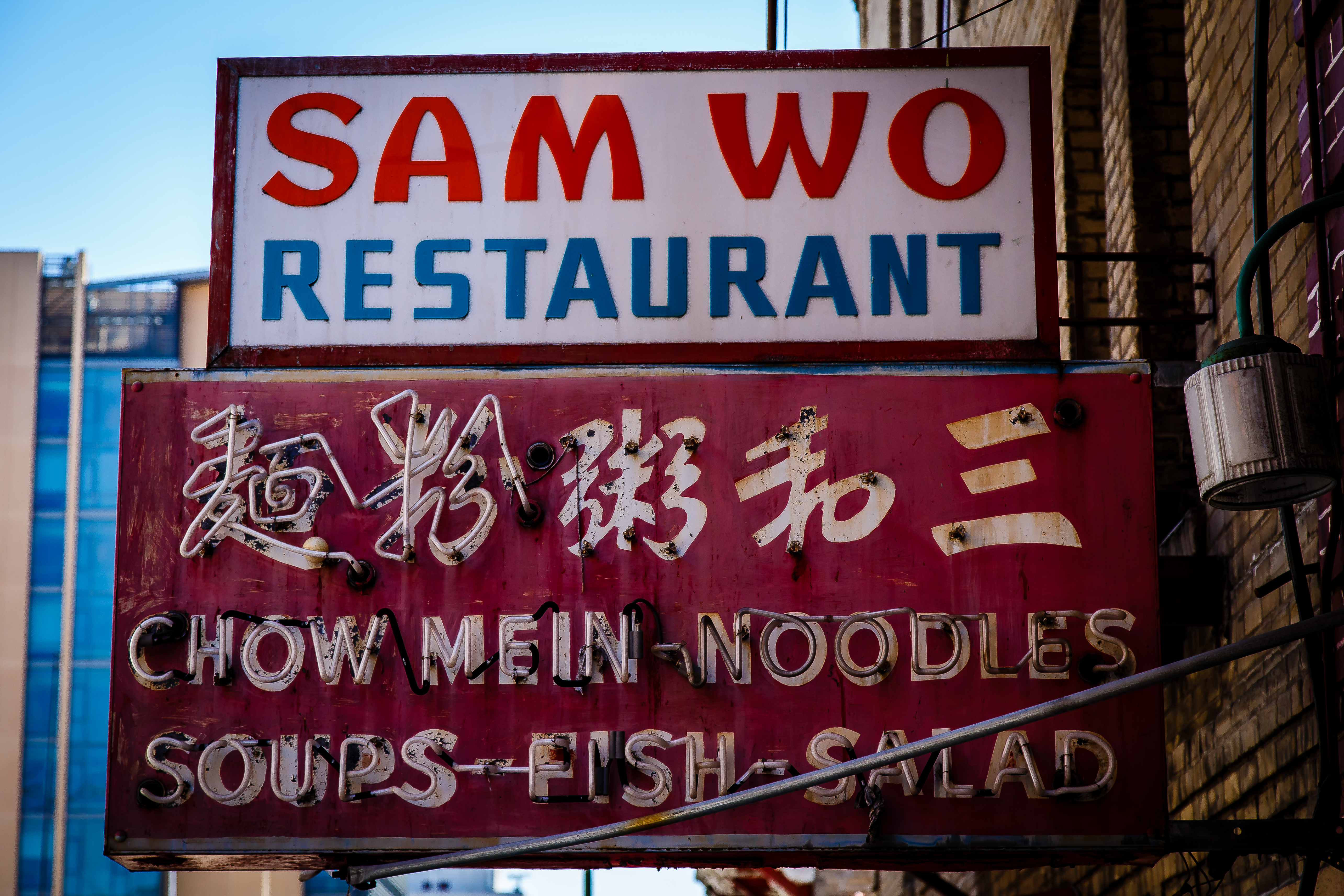 San Francisco